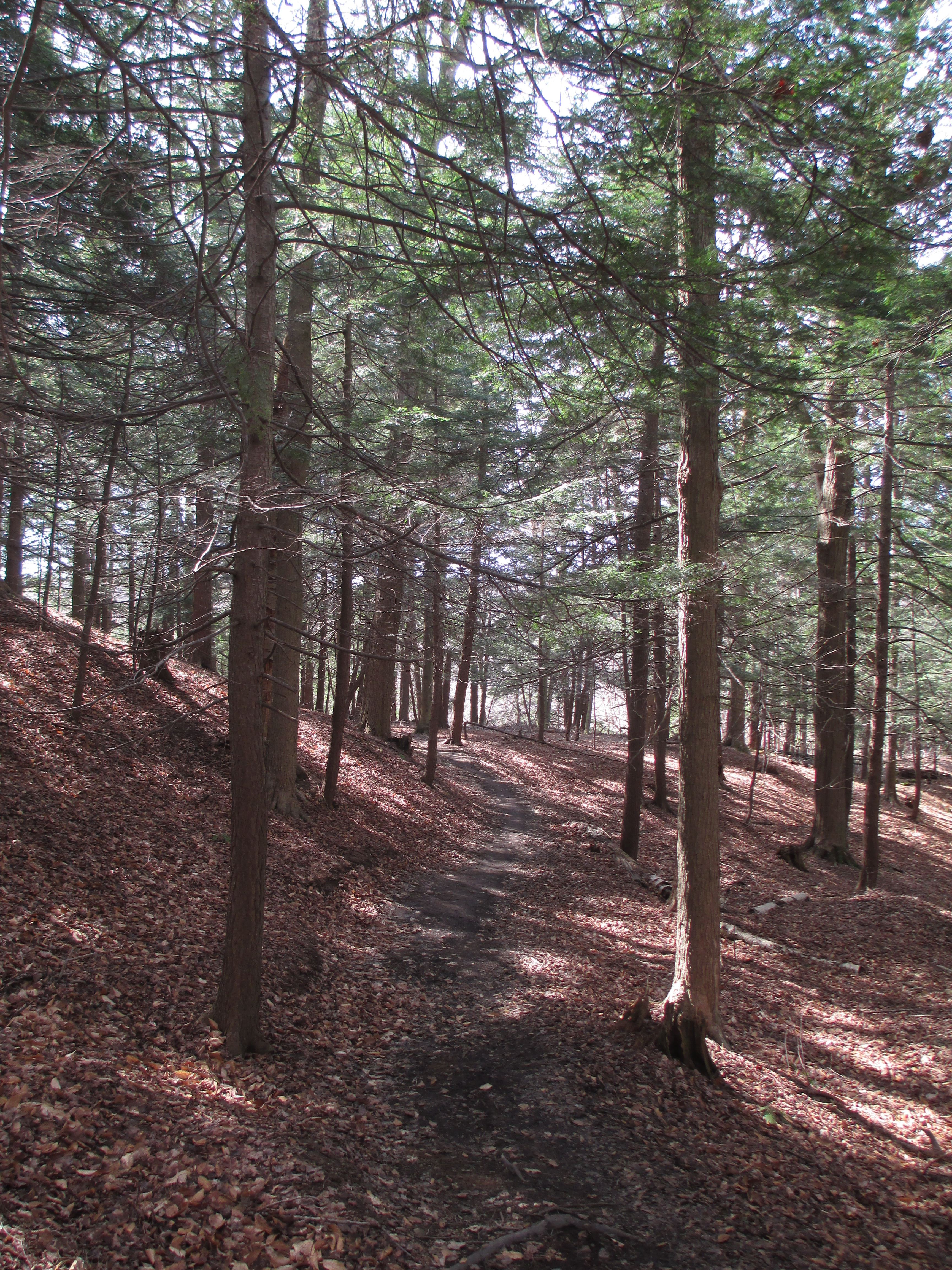 Trail through an Eastern hemlock (Tsuga canadensis) forest at Sprague Brook County Park in Erie County, New York.